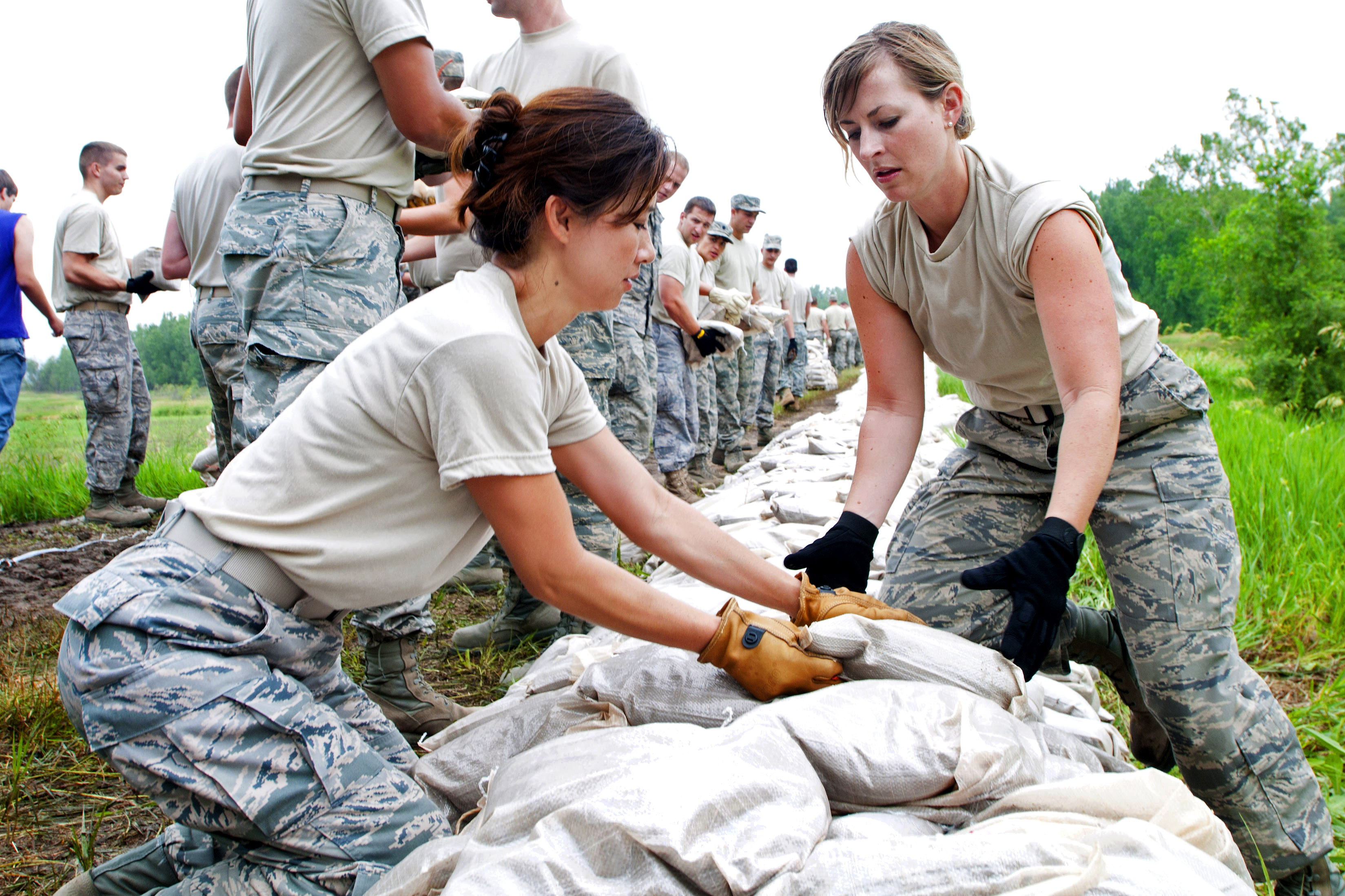 Air Force airmen lay sandbags to protect against possible flooding from the Missouri River outside Rosecrans Memorial Airport, St. Joseph, Mo., on June 10, 2011. The airmen are assigned to the 139th Airlift Wing, Missouri Air National Guard. Combined with the help of volunteers from local communities, the airmen helped lay 24,000 sandbags.